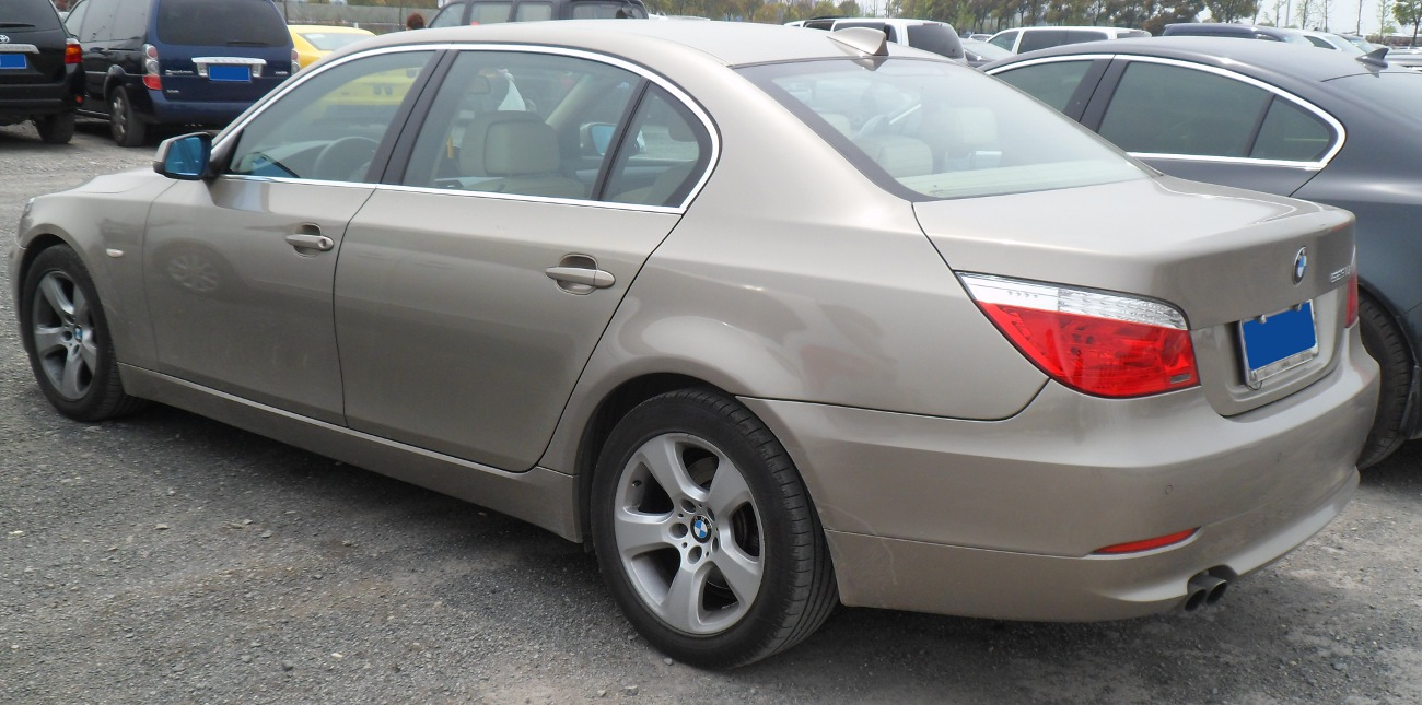 BMW 5-Series E60 Li photographed in Anting, Shanghai municipality, China.